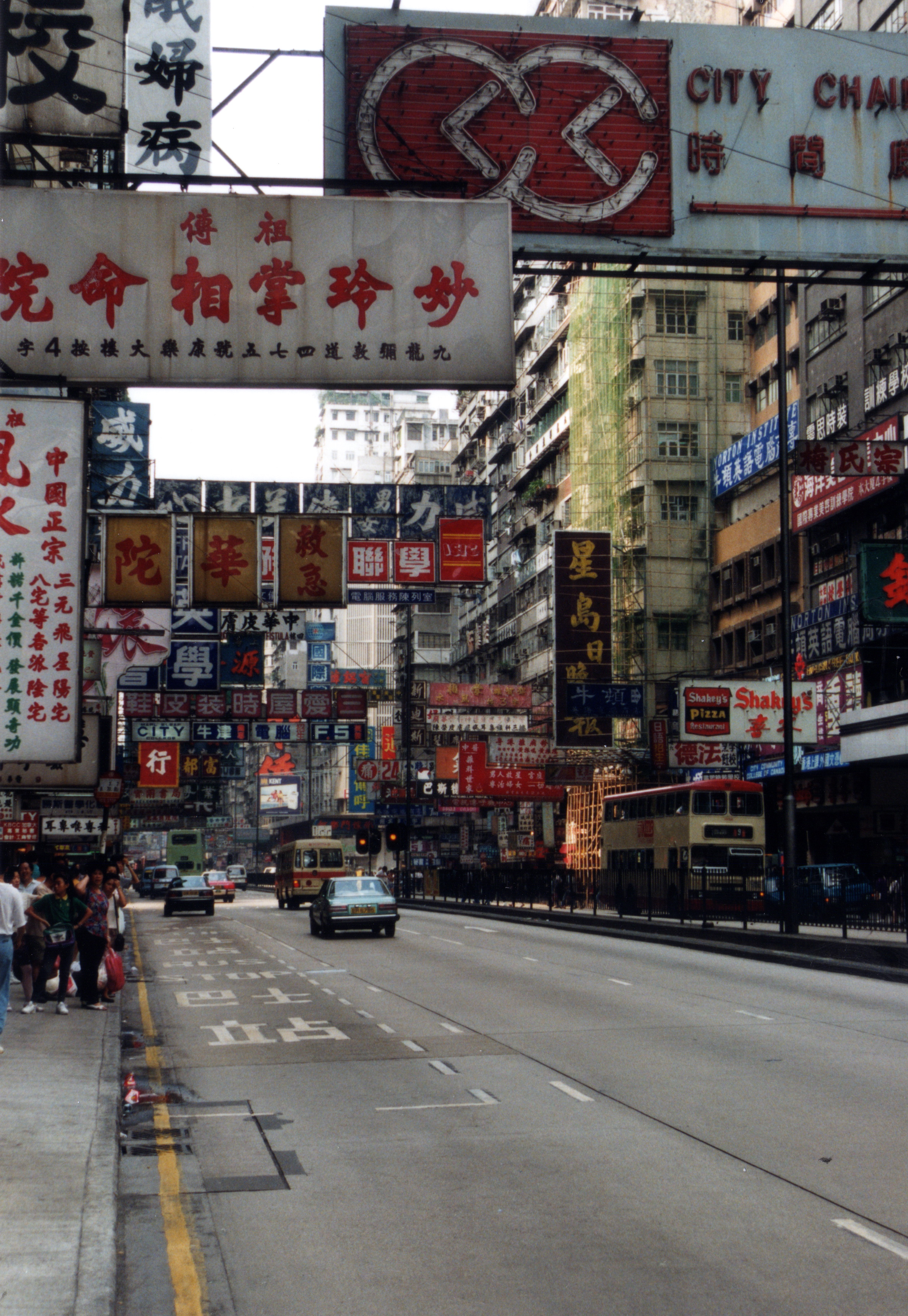 HK Nathan Road in 1991